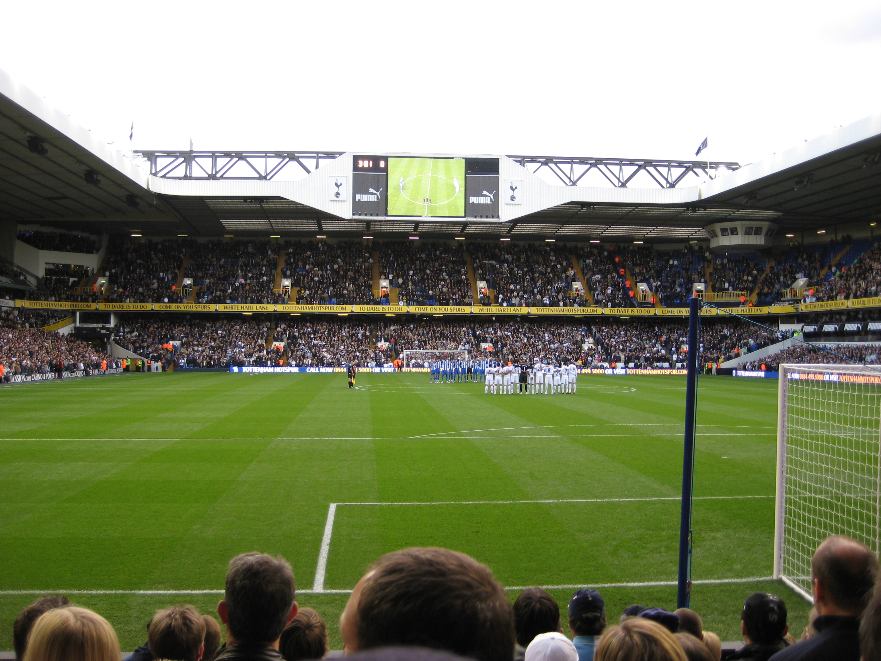 Minute of silence to mark Rememberance Day in the game between Wigan Athletic and Tottenham Hotspur.